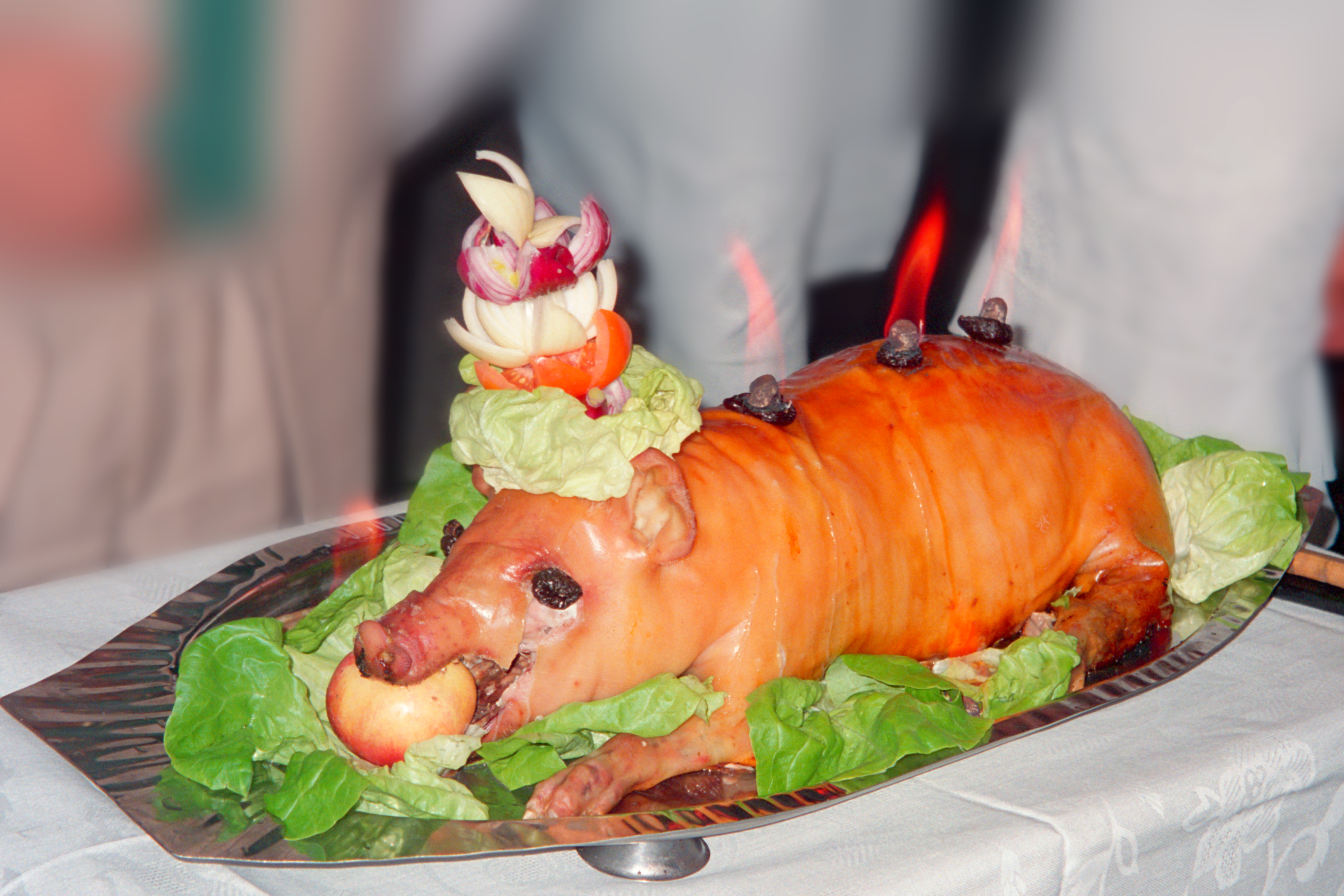 The Suckling pig, Restaurant Dobieszków near Lodz(Poland)